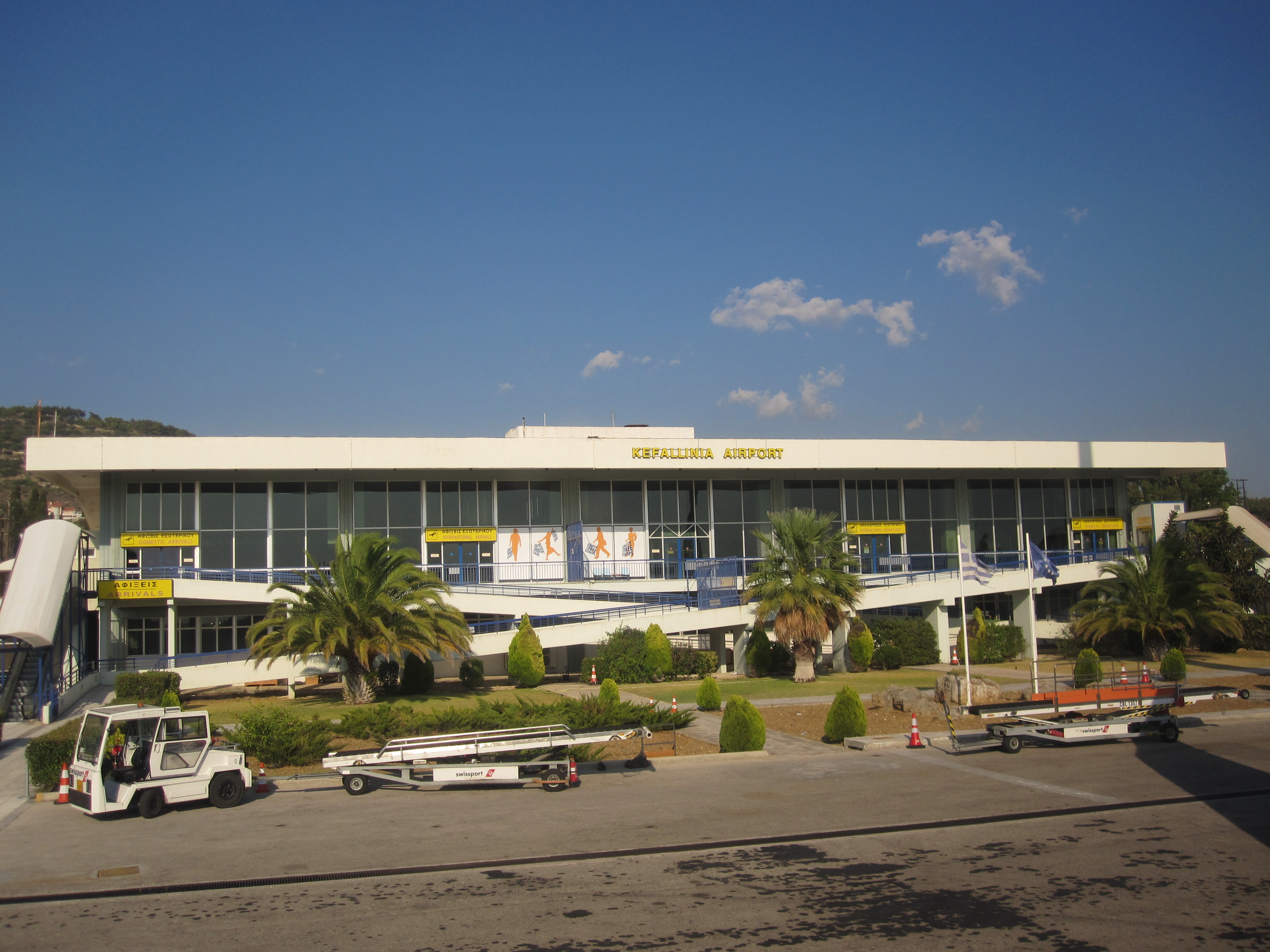 Kefalonia Airport